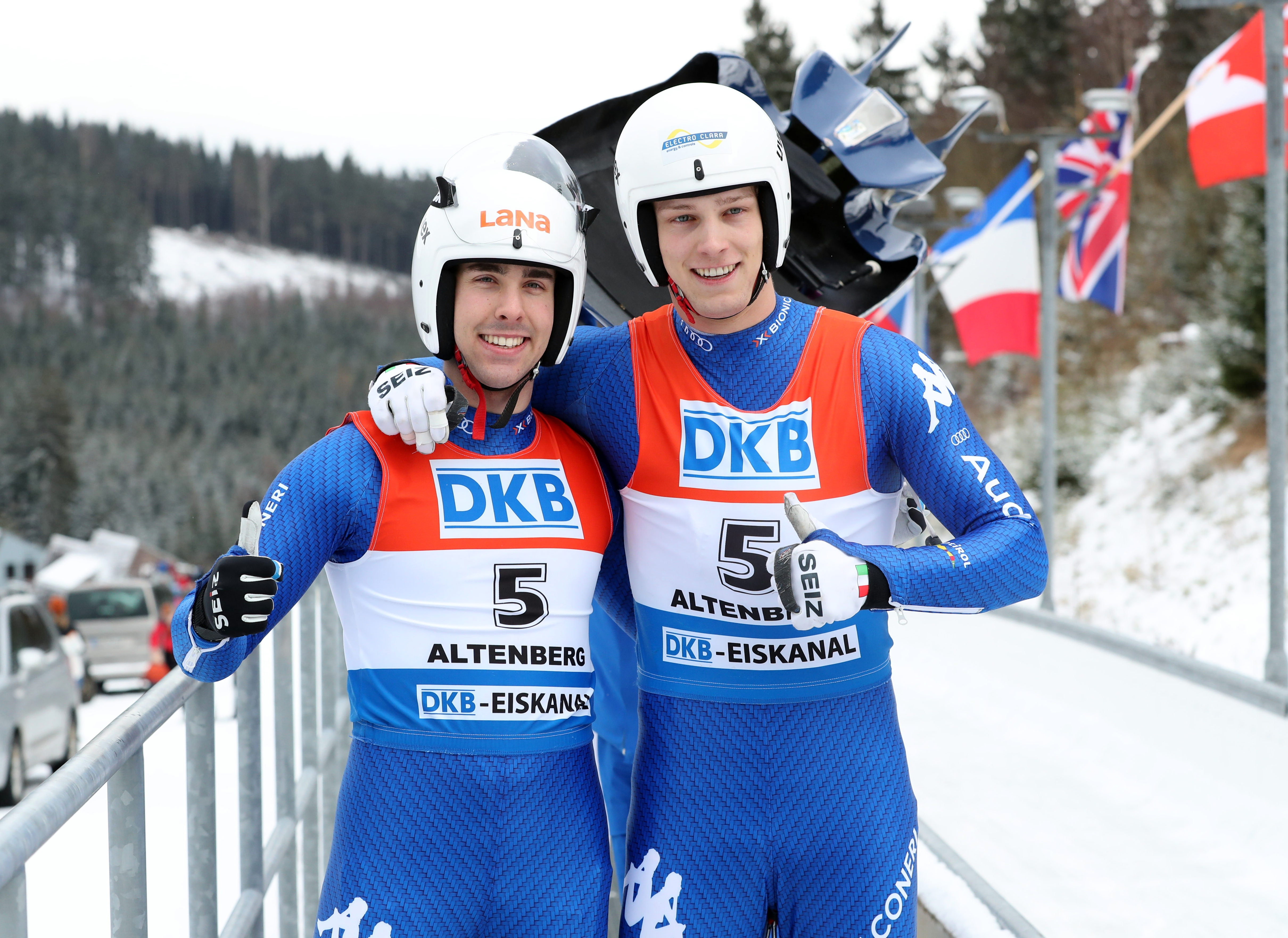 33rd Junior World Championship Luge, Altenberg 2018: Fabian Malleier, Ivan Nagler